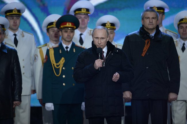 Rally in support the Accession of Crimea to Russia